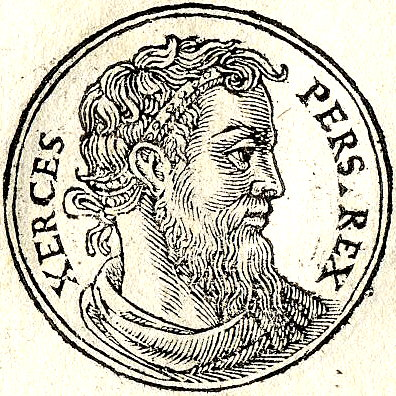 Xerxes I was a Zoroastrian Persian Shahanshah (Emperor) of the Achaemenid Empire.